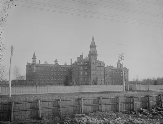 Mercer Reformatory (Toronto, Canada). A growing awareness that female prisoners had different needs than male prisoners led to the establishment of the first prison for women in Canada in 1874. The objective of the Andrew Mercer Reformatory was to create a homelike atmosphere for its female inmates and to teach them the skills necessary to lead a decent life once their sentence expired. The training offered was intended to instill feminine Victorian virtues such as obedience and servility. Demolished in late 1969, it is now the site of Lamport Stadium.